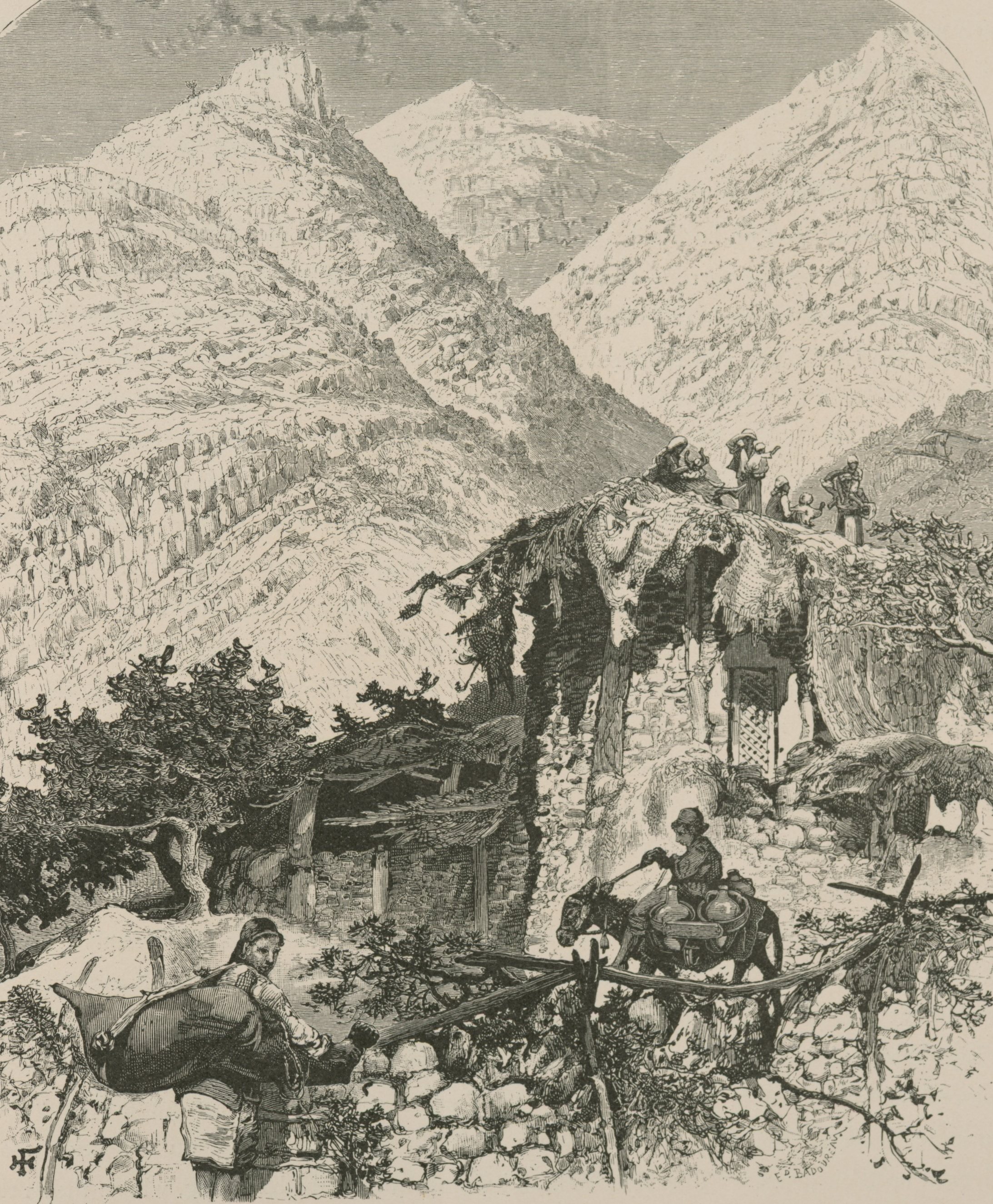 Wâdy Shib'a, from Hebbâriyeh. The village of Shib'a may be seen on the summit of the second peak; it is the highest inhabited place in Mount Hermon (Jebel esh Sheikh)